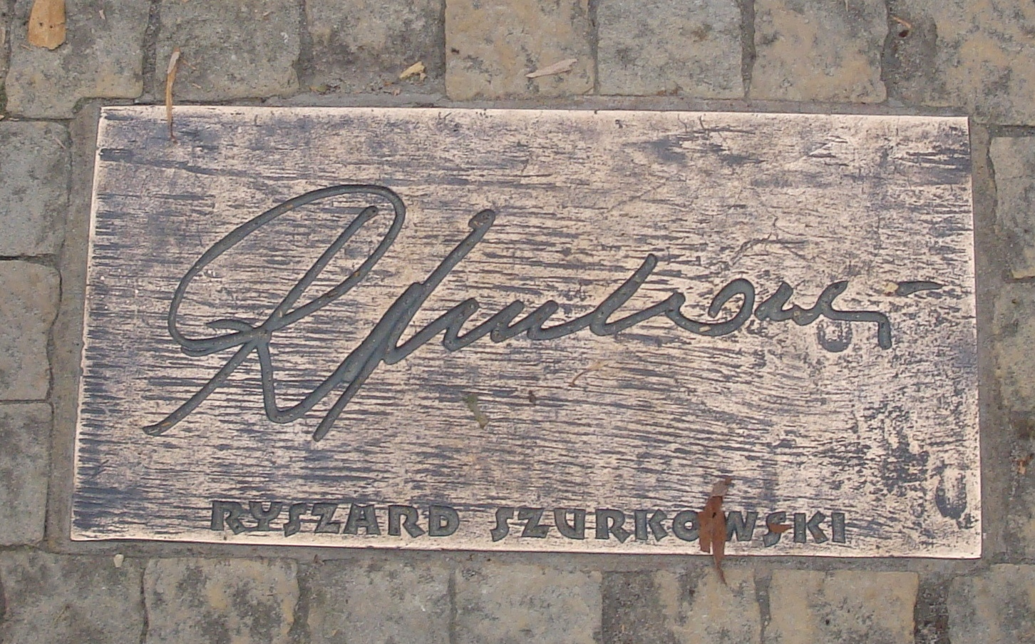 Polish Cycling Walk of Fame in Nałęczów, Poland. Signature of Ryszard Szurkowski.